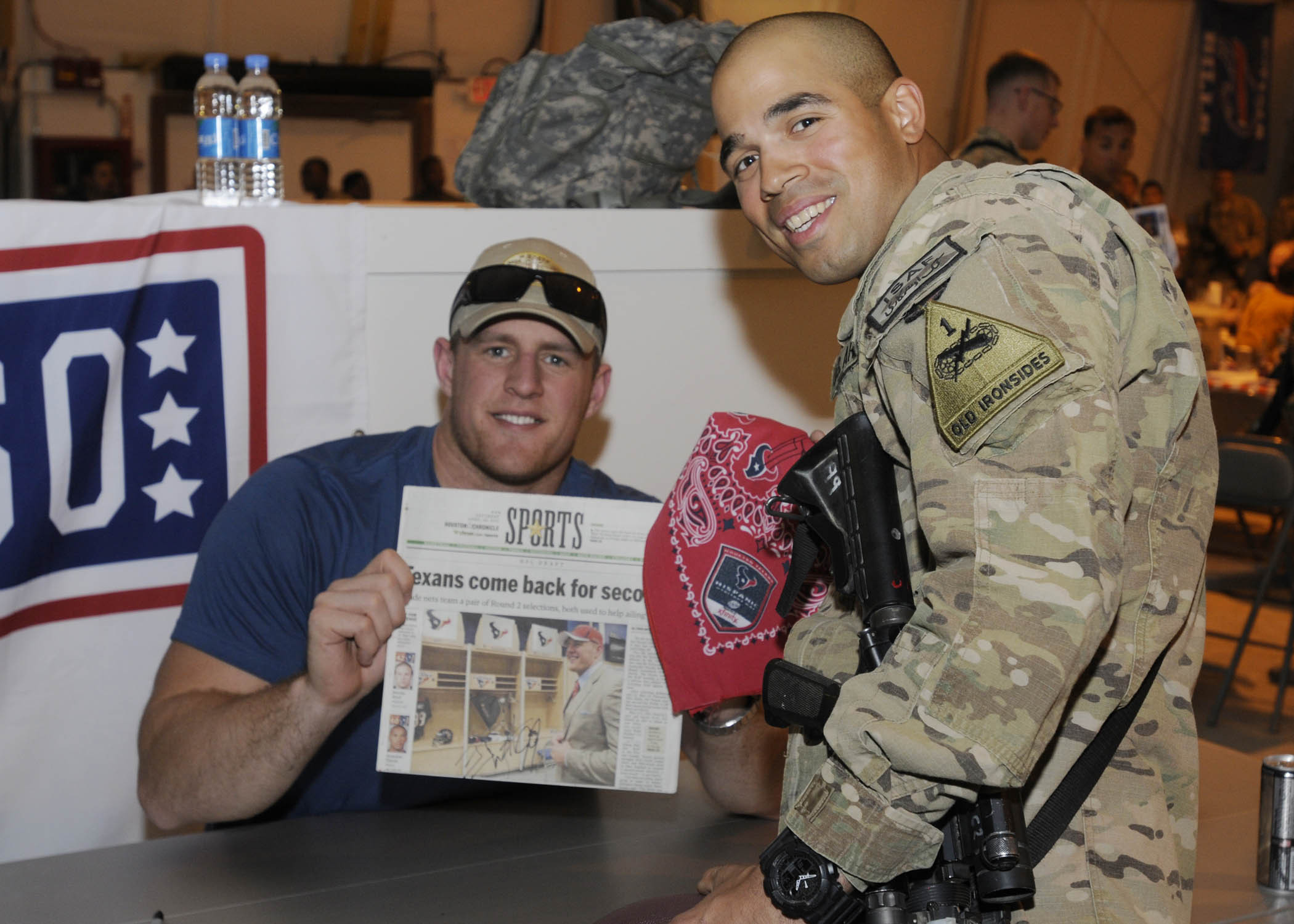 J.J. Watt with Sgt. Xavier Vargas, 03/18/2013